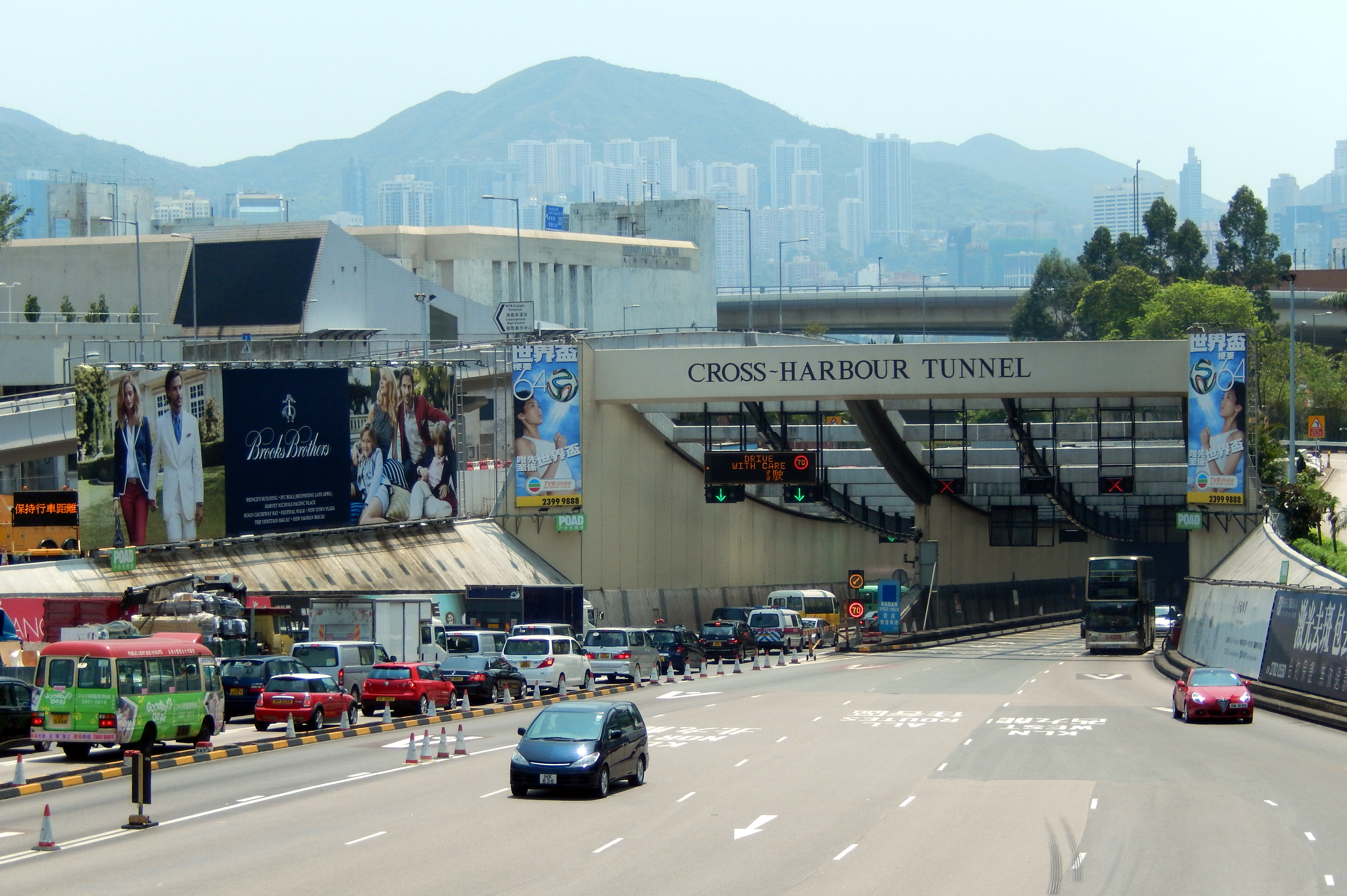 Cross-Harbour Tunnel 海底隧道